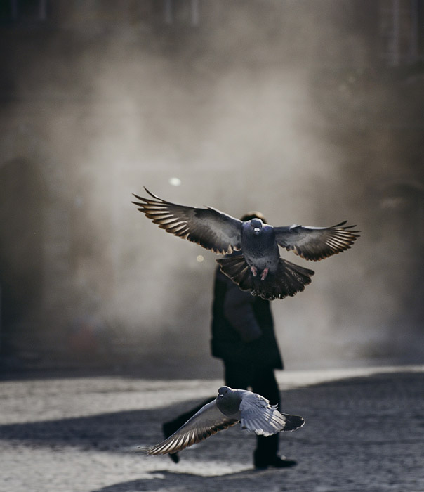 Joanna Maria Rybczynska - "Winged Man" / photography, 2008